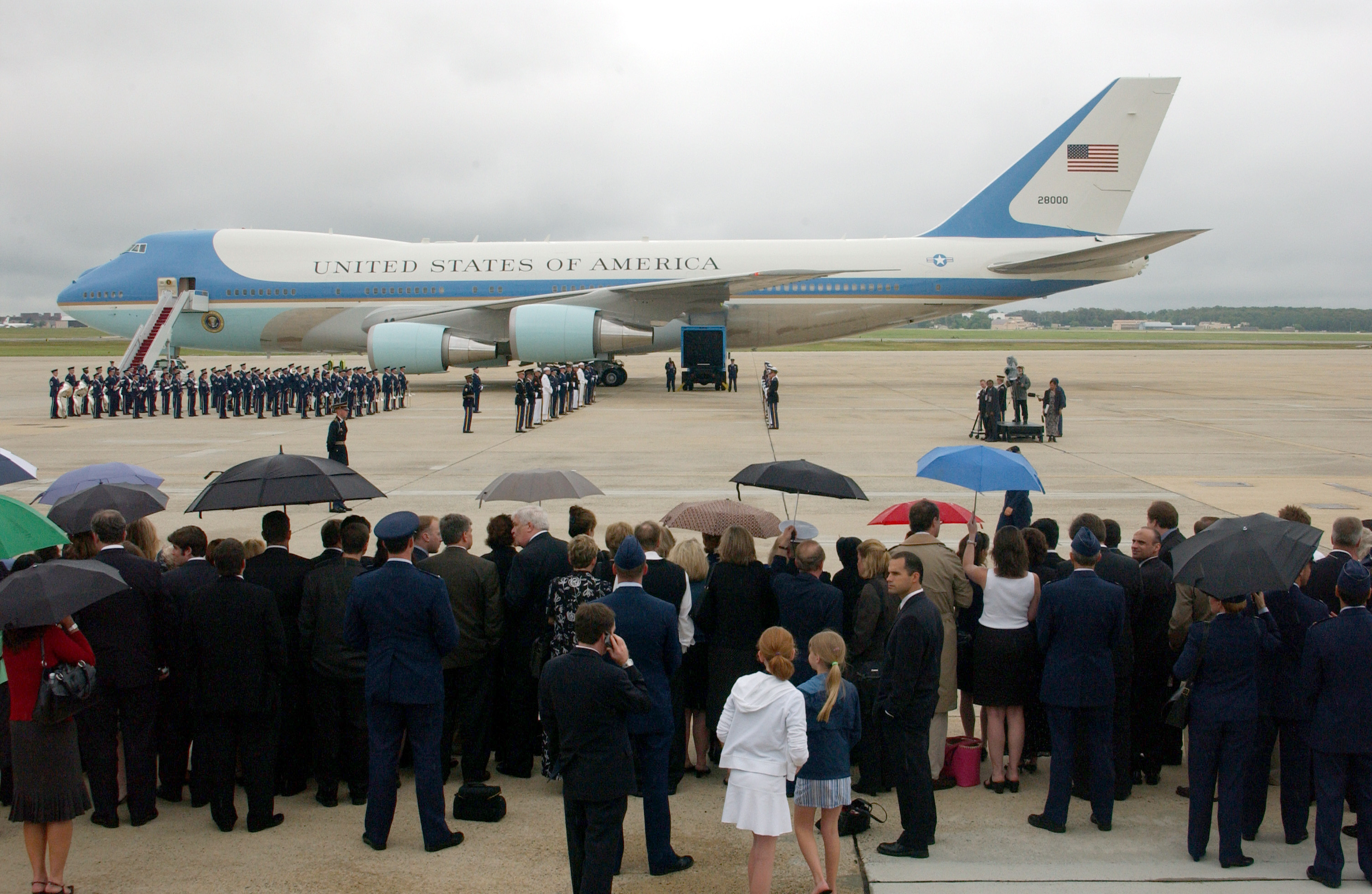 Andrews Air Force Base, Md. (Jun. 11, 2004) - Crowds gather on the flight line at Andrews Air Force Base during a departure ceremony, to pay respect for former President Ronald Reagan. After honors were rendered, former President Ronald Reagan's flag-draped casket was placed aboard the VC-25 Special Airlift Mission (SAM) 2800 747 aircraft and flown to California for a sunset burial. U.S. Army photo by Cpl. Marshall Bryce Emerson (RELEASED)